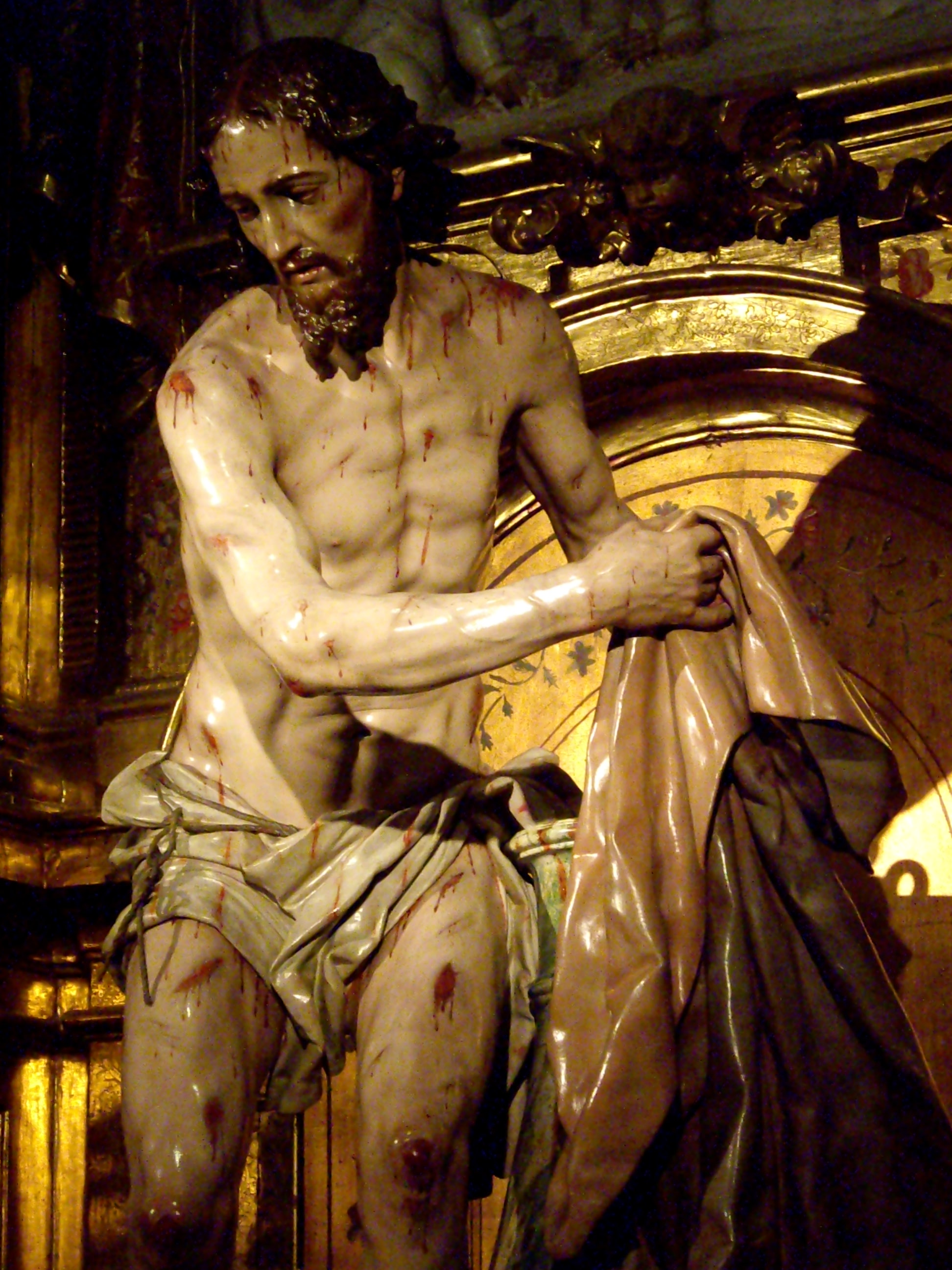 Jesus Flagellate, by Luis Salvador Carmona, Salamanca (Spain)